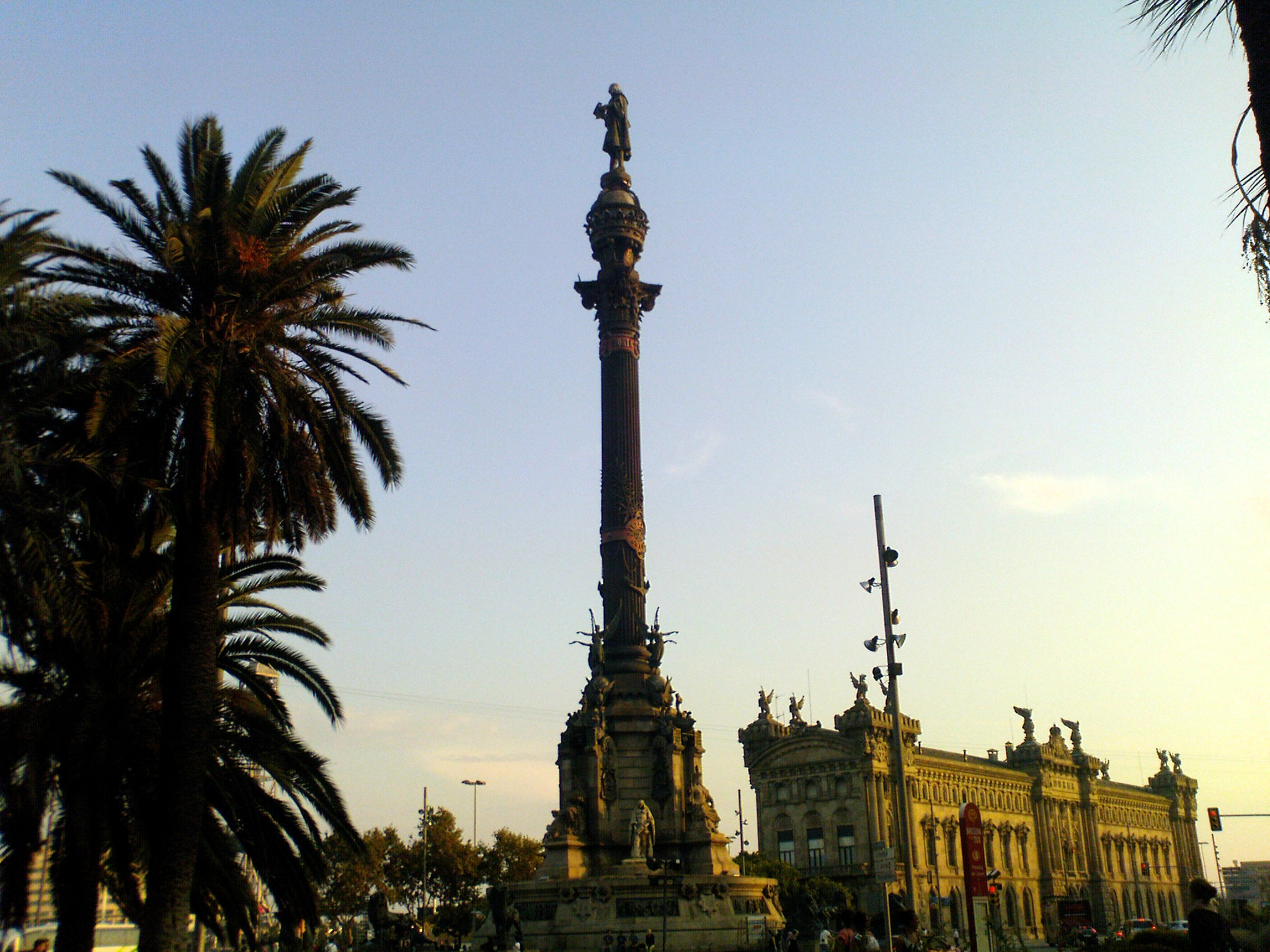 Columbus monument in Barcelona.